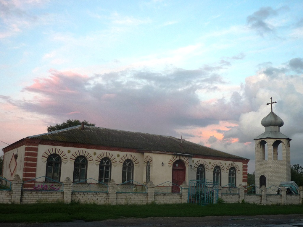 Modern Church in the Manor House, Sloboda, Ukraine, beginning of the XXth century